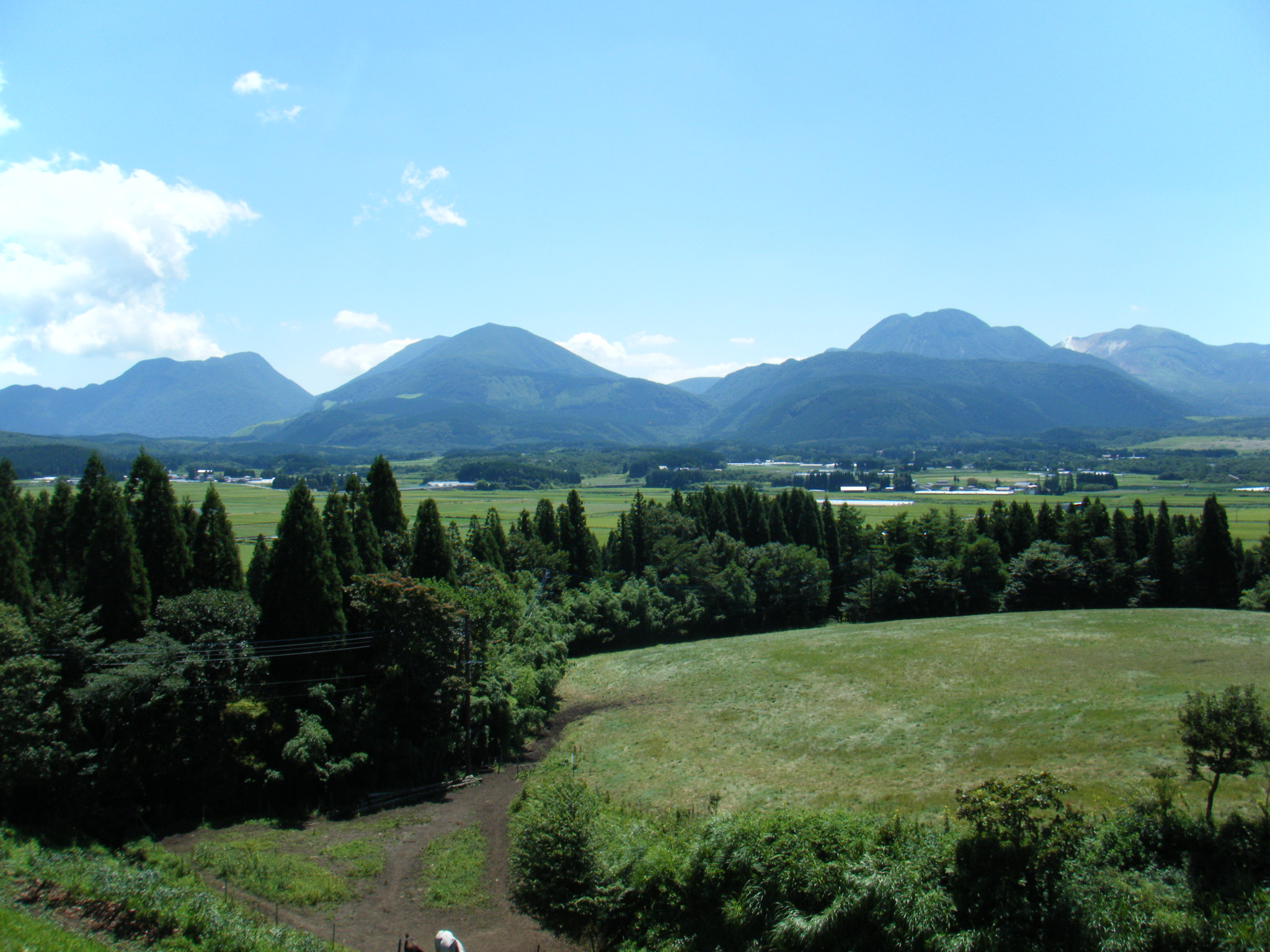 Handakogen with Kuju Mountains. Kuju Mountain as seen from the NNW.